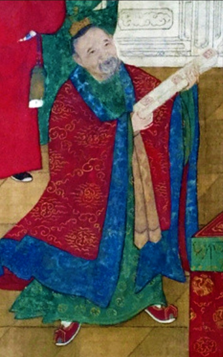 Shao Yuan Jie, zhengyi dao's taoist priest of the Ming Dynasty.